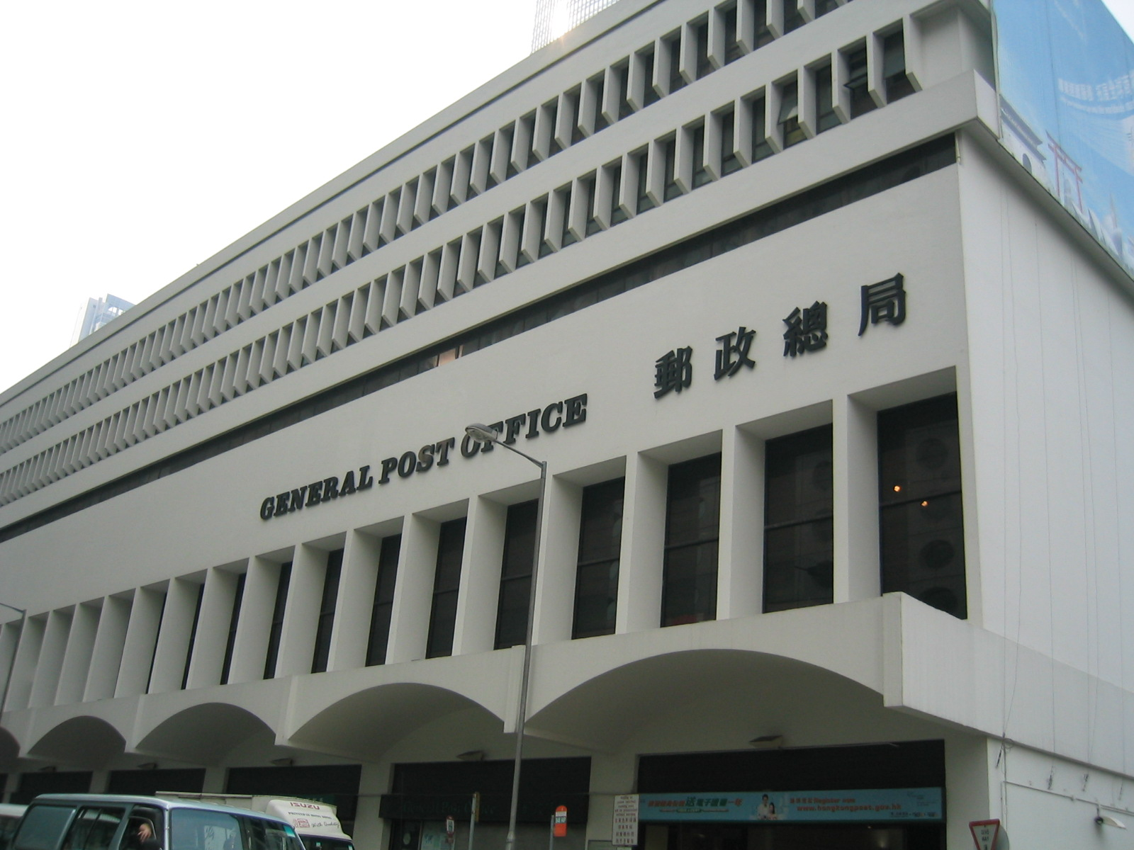 General Post Office, Central, Hong Kong